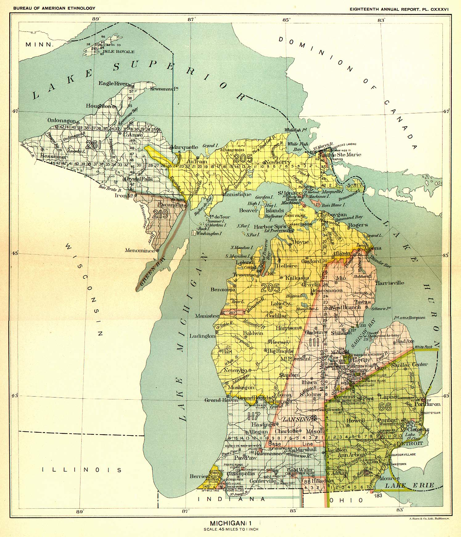 This 19th century map, produced by the Smithsonian Institution, depicts the major Native American land cessions that resulted in what is now Michigan. United States Serial Set Number 4015 contains the second part of the two-part Eighteenth Annual Report of the Bureau of American Ethnology to the Secretary of the Smithsonian Institution, 1896-1897. Indian Land Cessions in the United States, 1784-1894 United States Serial Set, Number 4015